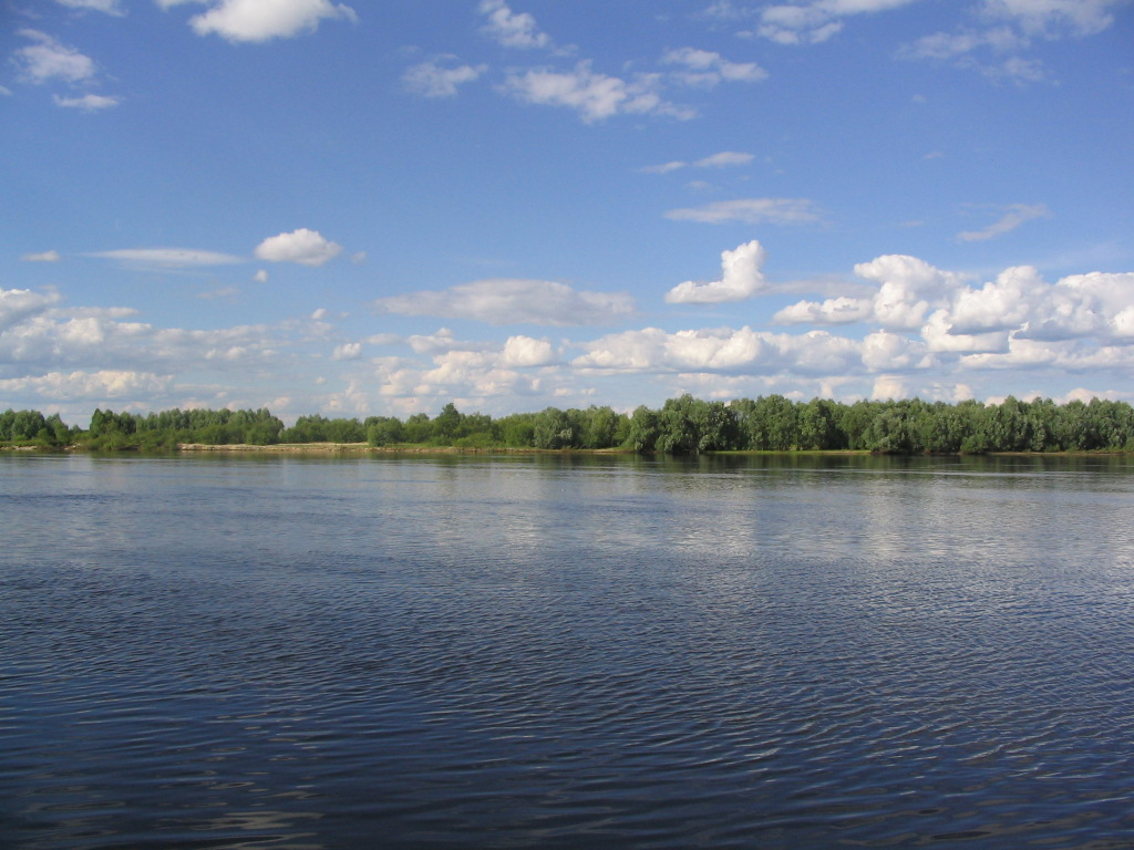 Pripyat river near Mazyr, Belarus